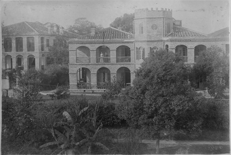 Ponasang Girls' School